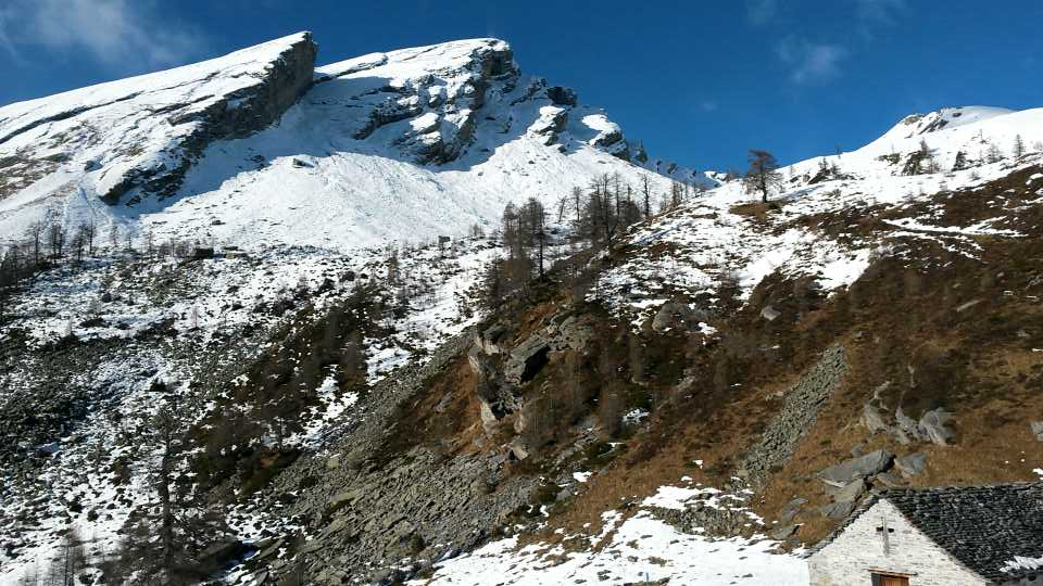 Pioda di Crana (2430 m) dusted with snow in january 2015 and a side sight of Alpe Motti (1815 m)